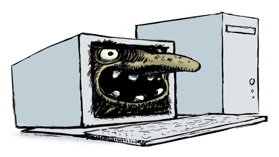 "Internet troll – As trolls are as old as mankind, so internet trolls are as old as the internet." –wiki-vr